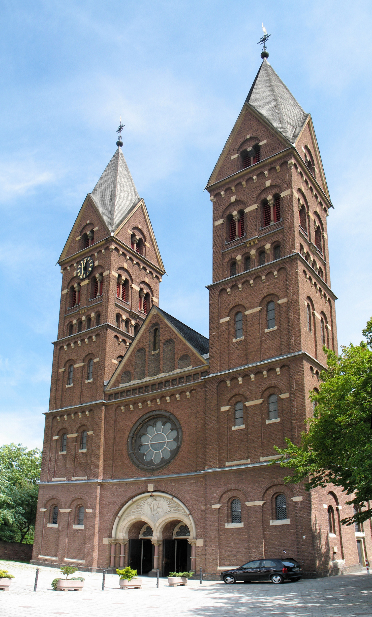 Catholic church of St Germanus in Wesseling